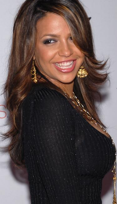 Vida Guerra at a 2007 American Music Awards after-party